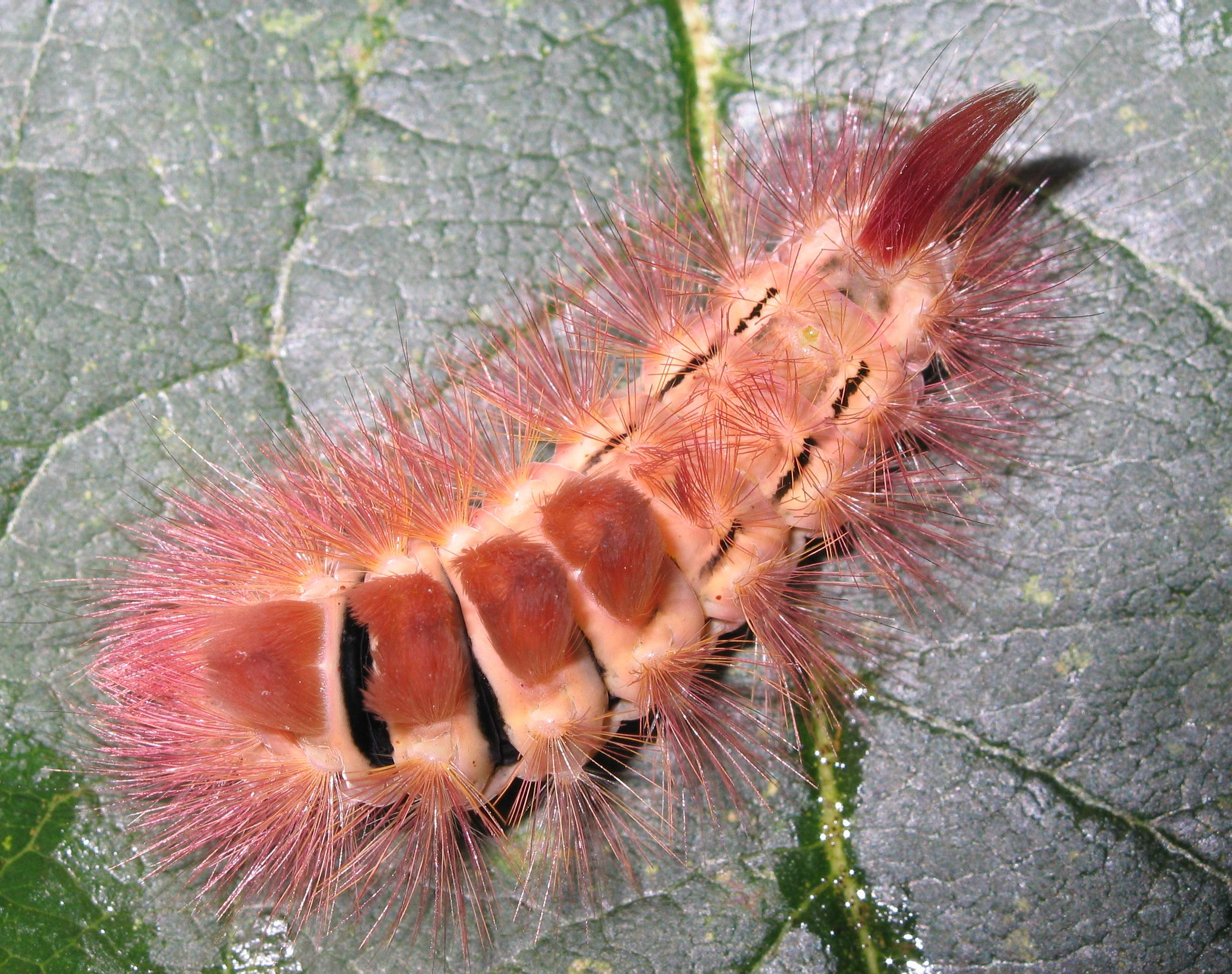 Caterpillar of a Pale Tussock (Calliteara pudibunda). Author: soebe Date: October 01, 2005 Location: Eckernförde, Northern Germany Taken by Soebe in Northern Germany (Eckernförde) and released under GNU FDL.